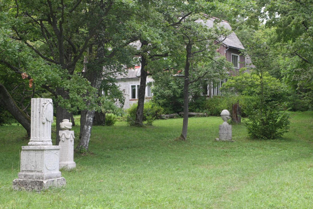 Puhtulaid, Lääne County, Estonia